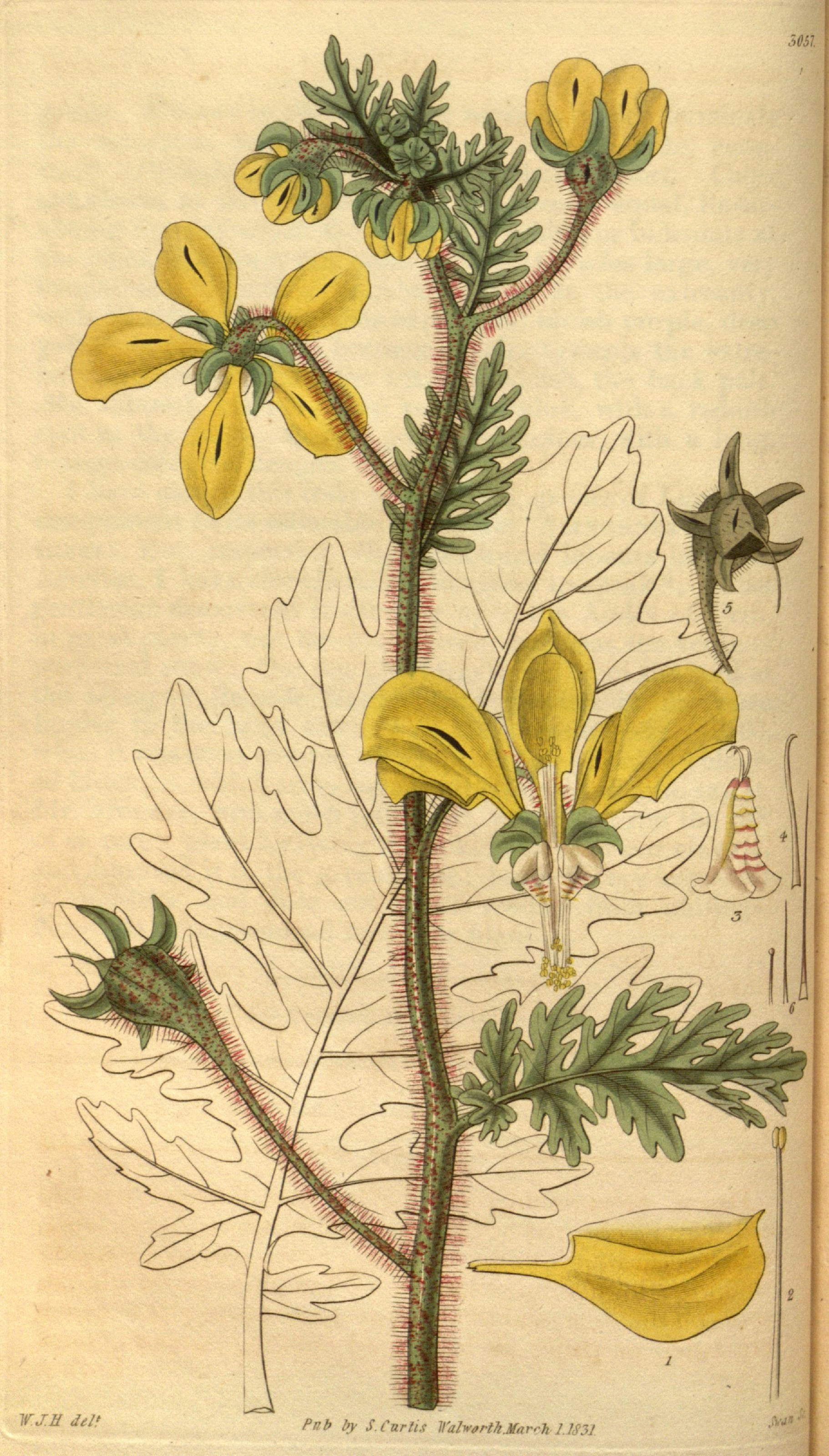 YJ.H del' J S. Curtis Walworth Mar ■